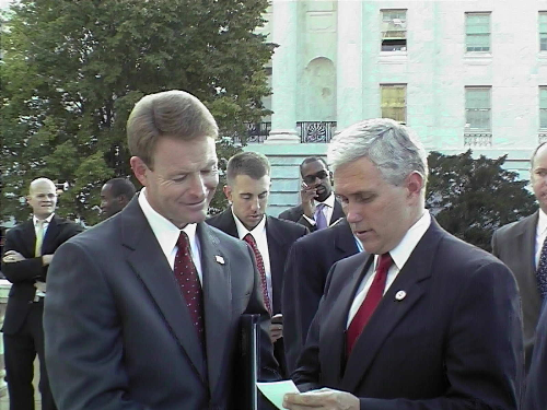 Congressman Pence talks with Family Research Council president Tony Perkins at a press conference held after the House vote on the Marriage Protection Amendment.